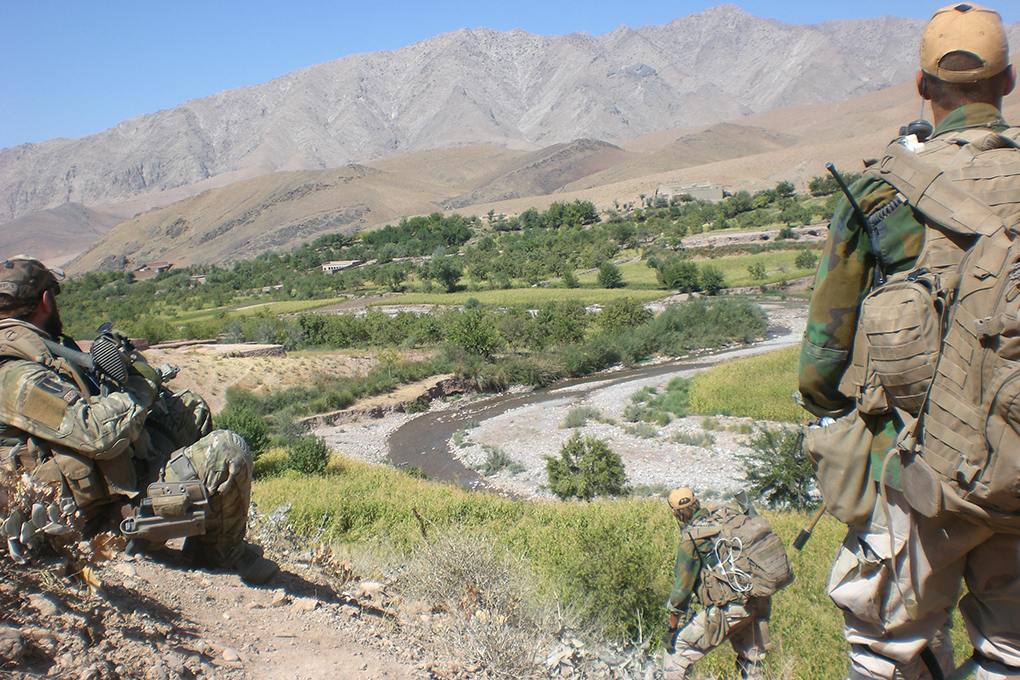 Militairen van het Korps Commandotroepen, onderdeel van Taskforce 55, tijdens een patrouille in Zuid-Afghanistan